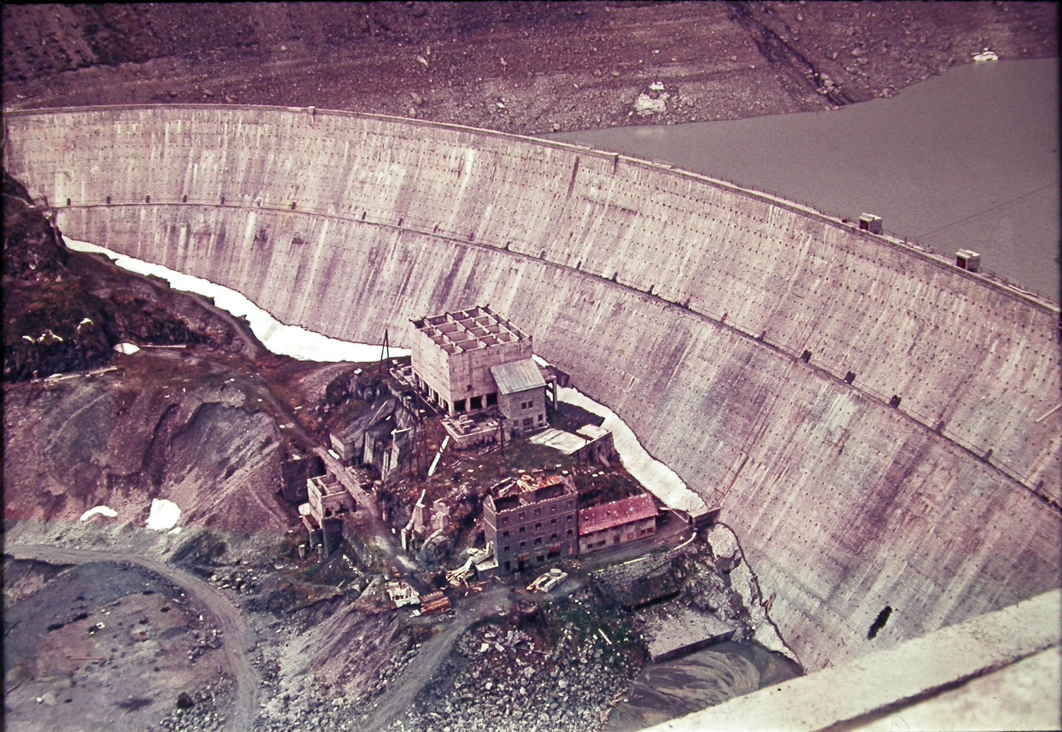 1957 Construction Grande Dixence - the old dam